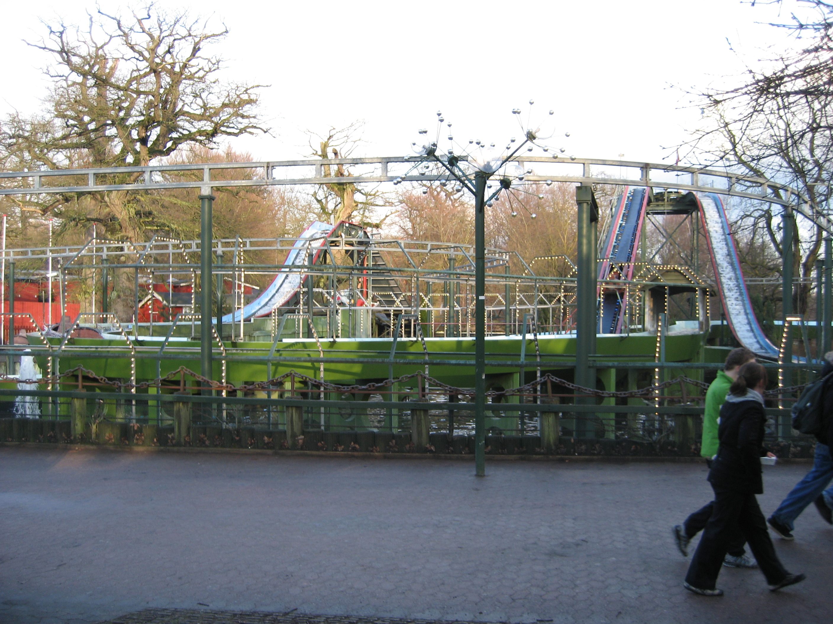 Water ride at Dyrehavsbakken, or Bakken, the world's oldest operating amusement park.